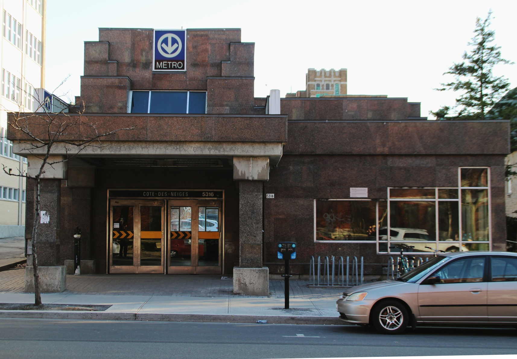 Édicule du metro Côte-des-Neiges sur le chemin de la Côte-des-Neiges